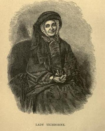 A depiction of Lady (Henriette-Felicité) Tichborne, mother of Sir Roger Tichborne